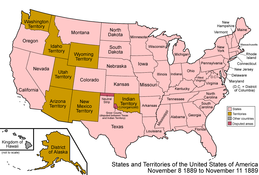 Map of the states and territories of the United States as it was from November 8 1889 to November 11 1889. On November 8 1889, Montana Territory was admitted as the state of Montana. On November 11 1889, Washington Territory was admitted as the state of Washington.